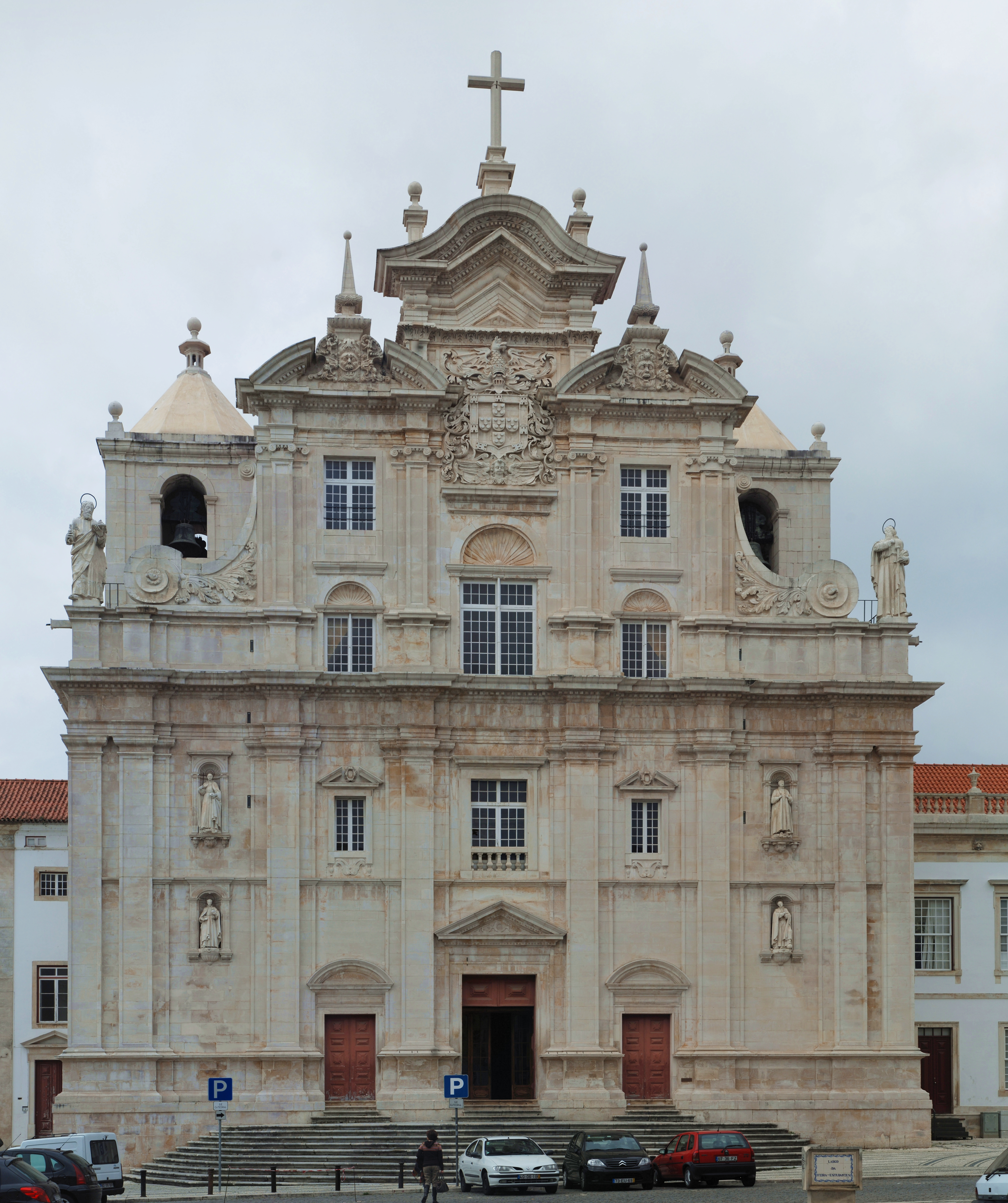 The New Cathedral (Sé Nova) of Coimbra, Portugal